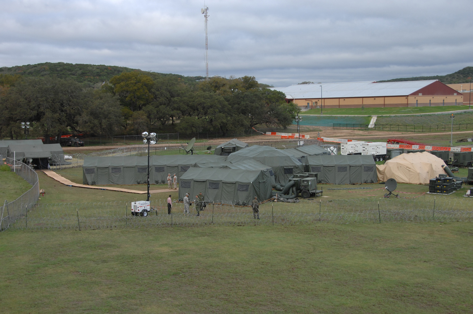 U.S. Army South utilizes its Deployable Joint Command and Control (DJC2) forward command post during Fuerzas Aliadas PANAMAX 09 at Camp Bullis, Texas. PANAMAX is an annual exercise involving military and interagency personnel, joint services and partner nation coalition personnel from various North, Central and South American and European countries focusing on the defense of the Panama Canal.